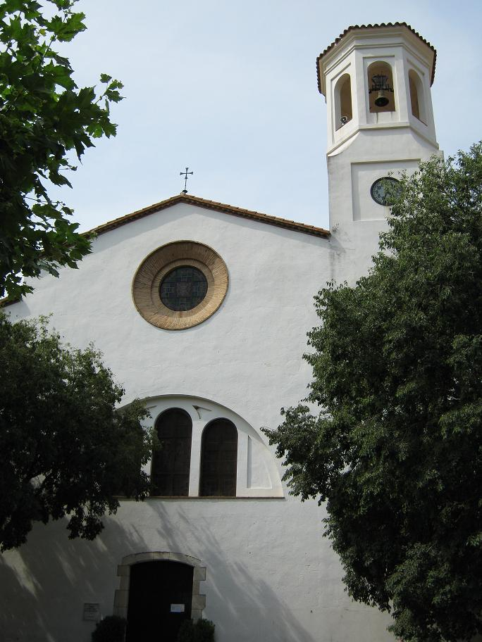 Sant Esteve Church in la Selva de Mar